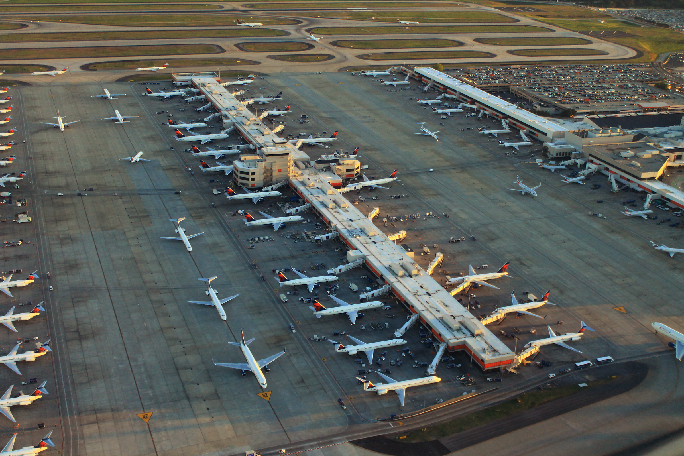 Friday evening in Atlanta - April 2016